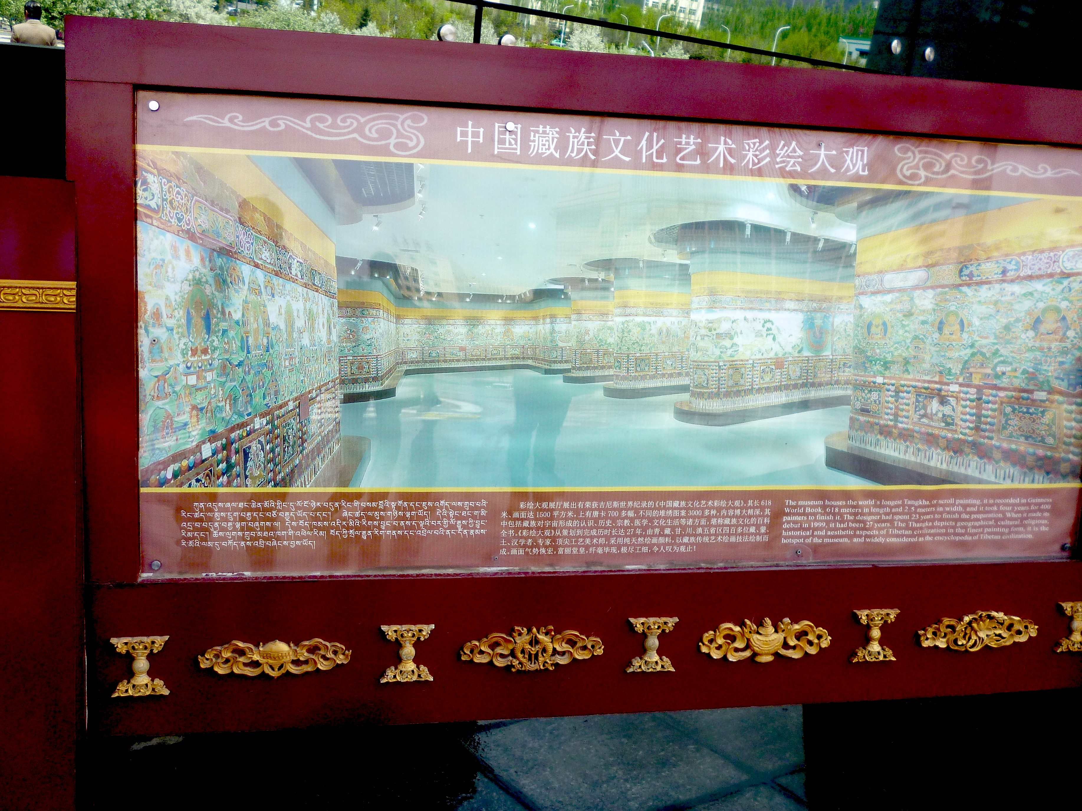 World largest Thangka (618m). As it is not allowed to take pictures, here just from a photo-display. Place: Qinghai Tibetan Cultural Museum, Xining (China)